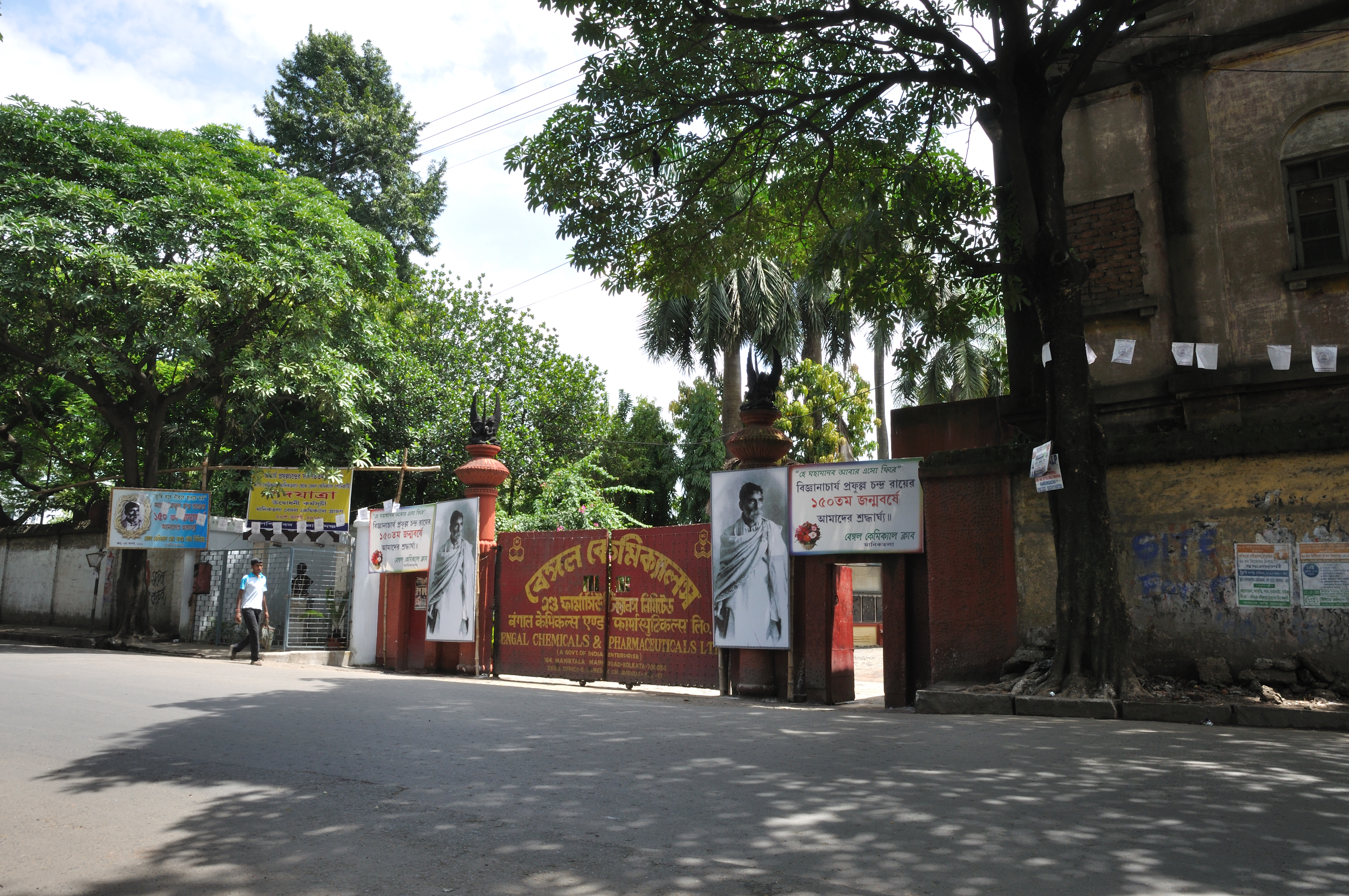 The main gate of the Manictala factory of Bengal Chemicals & Pharmaceuticals Limited (BCPL), established in 1901, is a Public Sector Undertaking (PSU) of the Government of India and is India's first pharmaceutical company. The company was started by Prafulla Chandra Roy in Kolkata (then known as Calcutta) and has since manufactured such household Indian products.